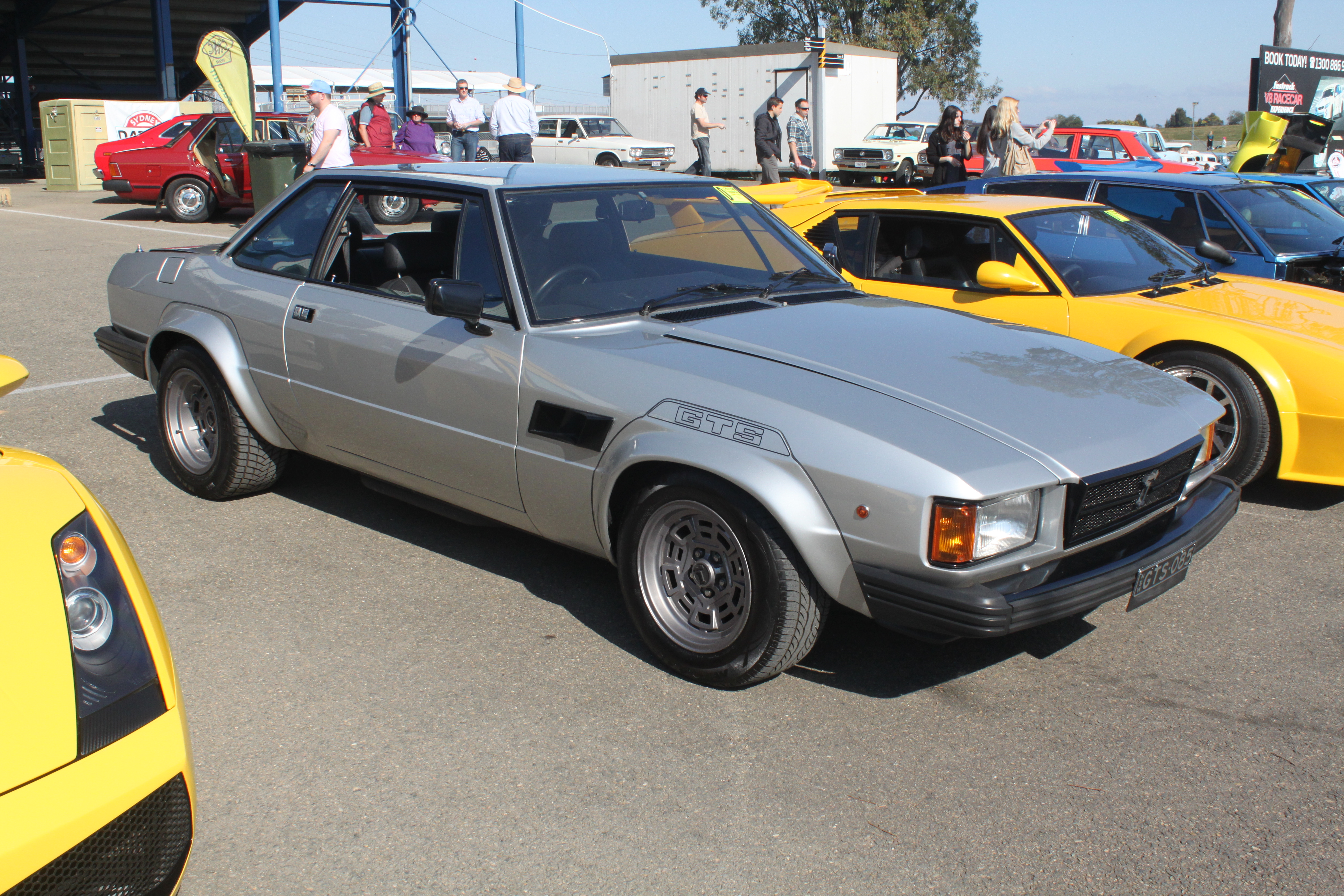 Shannon's Classic, Eastern Creek, NSW August 2015